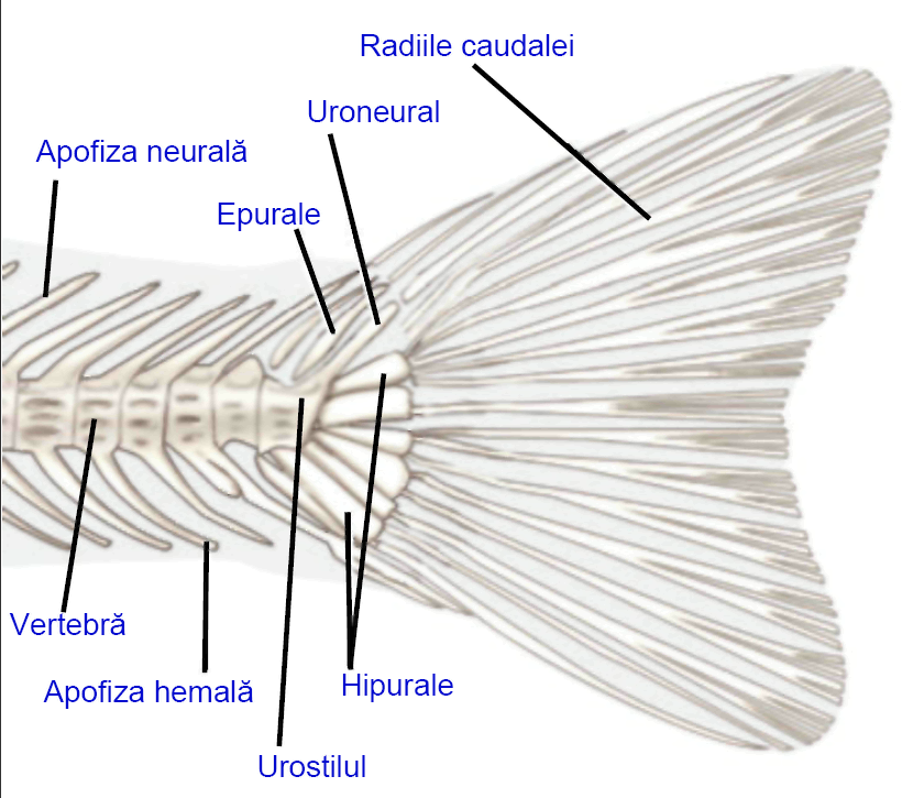 hypural